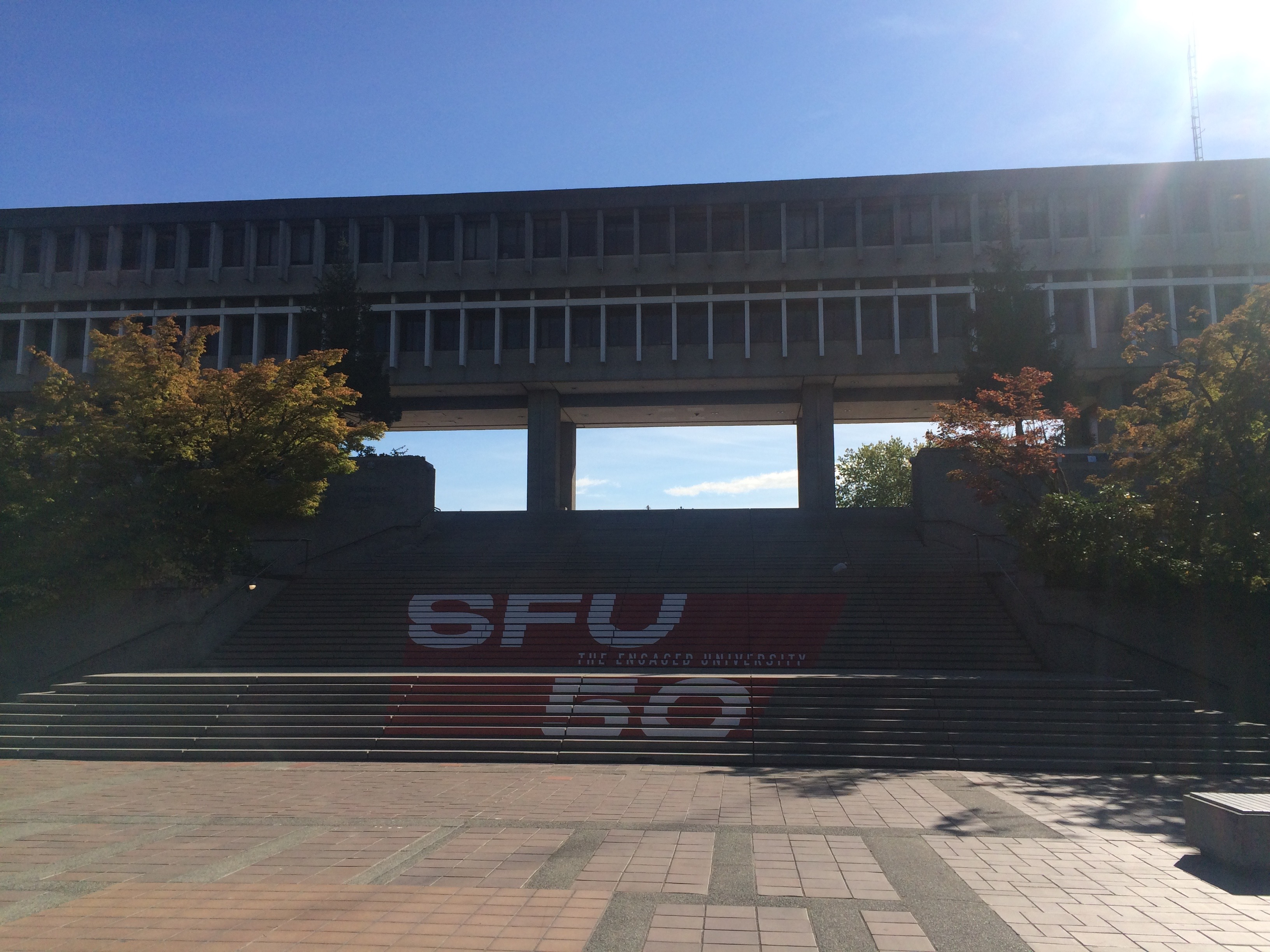 Convocation Mall